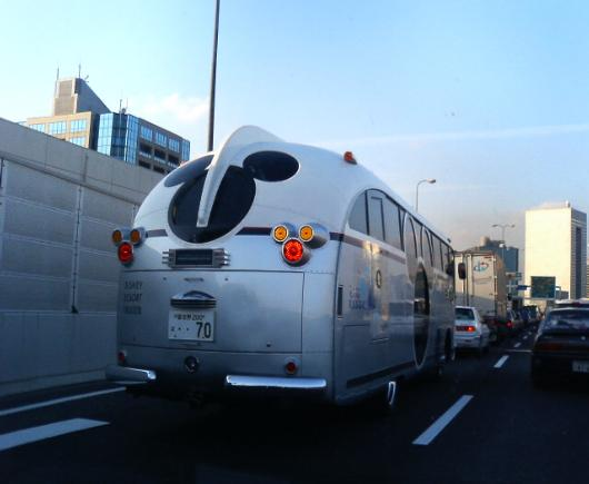 Mickey Mouse Bus: Spotted this funny Mickey Mouse bus on the freeway in Tokyo. It is called the "Disney Resort Cruiser".